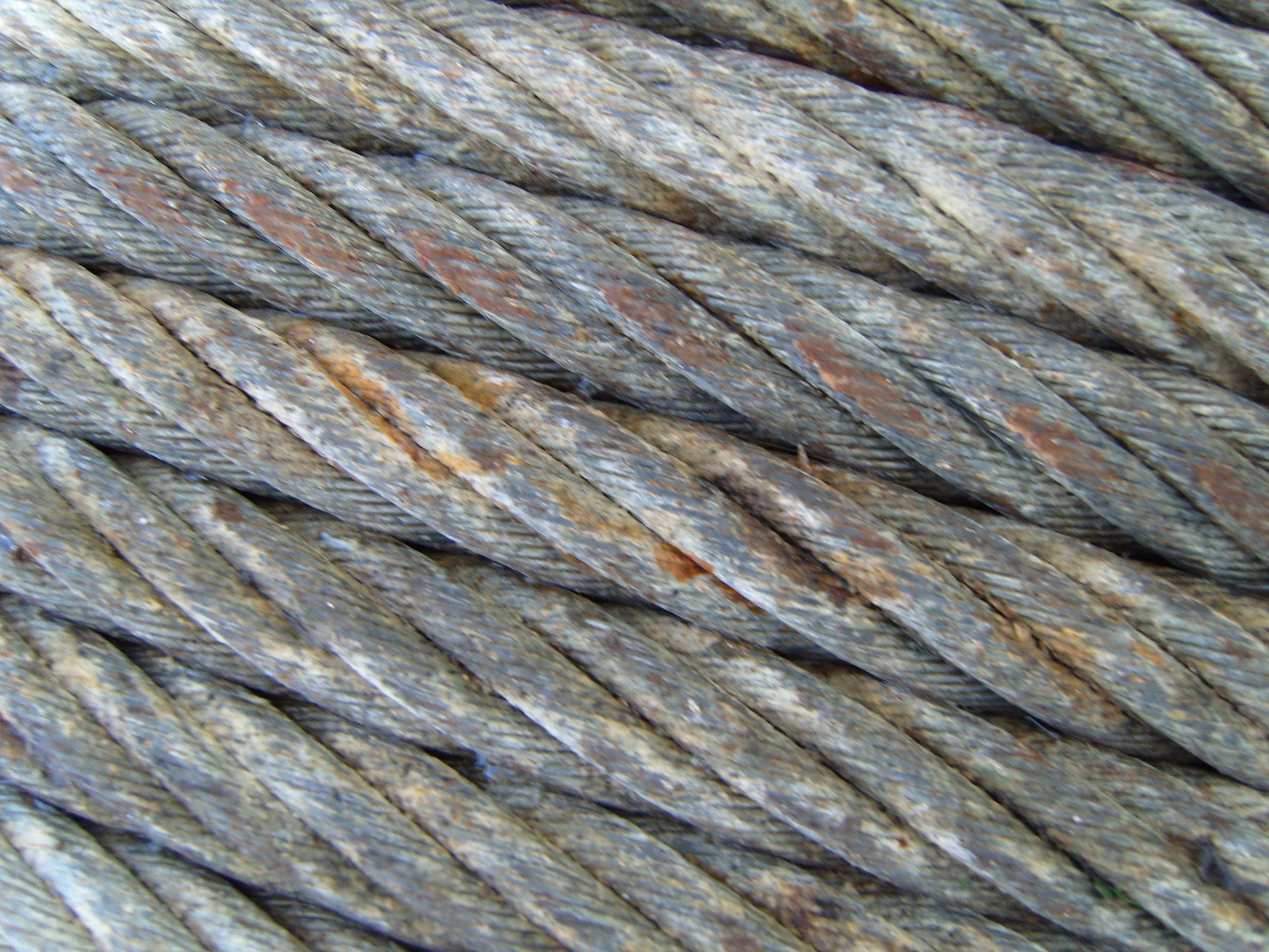 I Picturd it on a vikingline boat trip to finand.